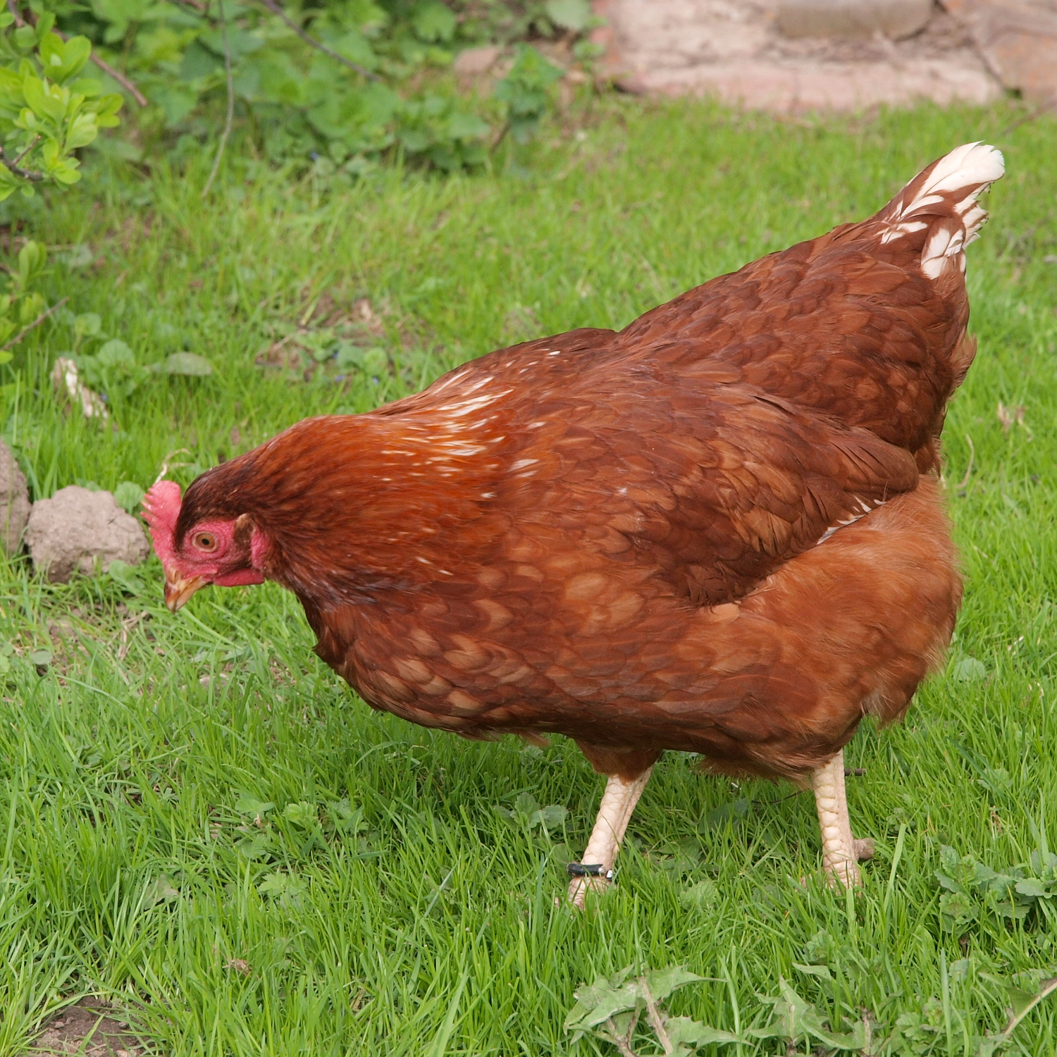 Vereya (Moscow Oblast, Russia). A peculiar breed of red chicken walks the (quiet) streets in great numbers.